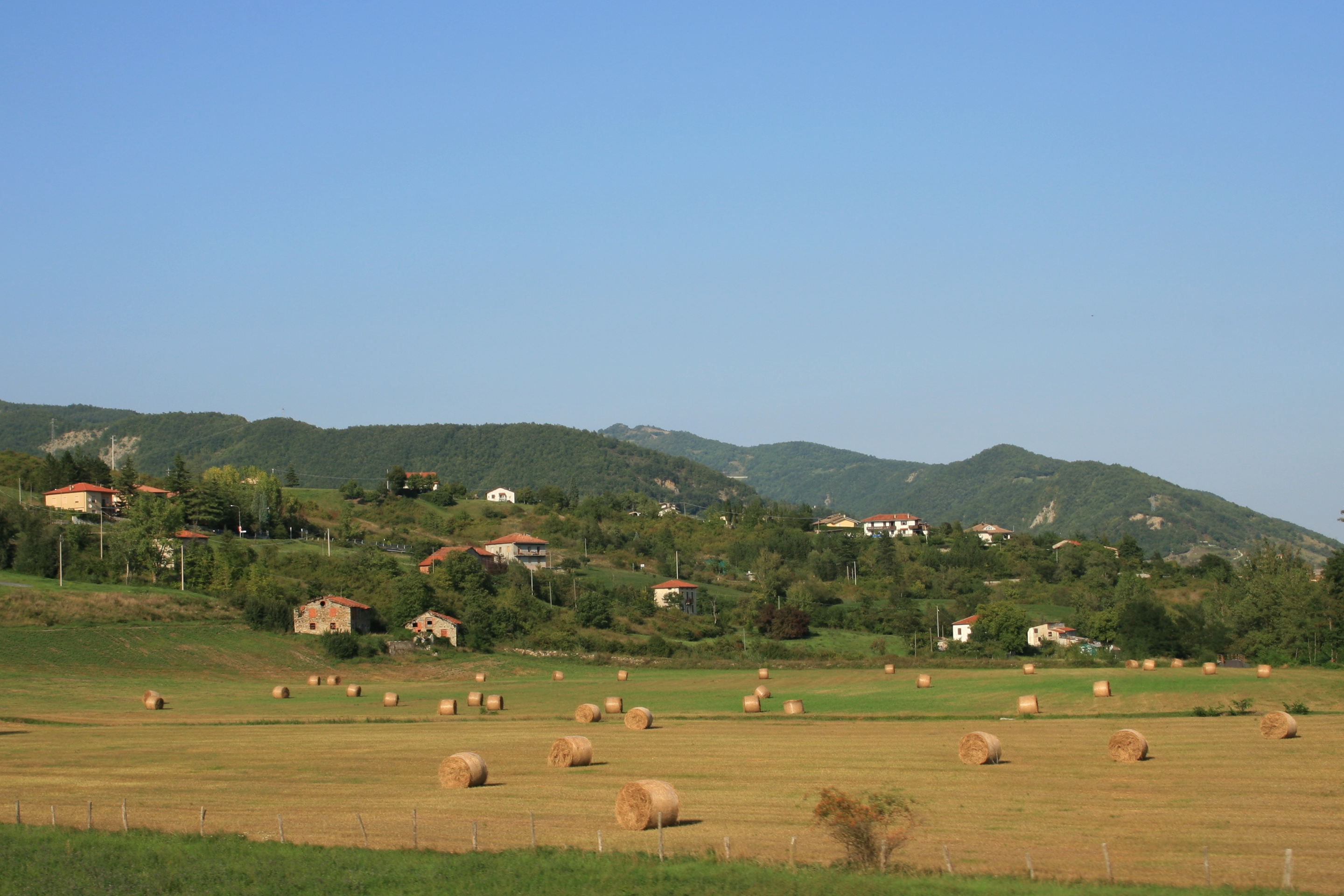 The fields surrounding the Italian town of Borgo Val di Taro, Parma. Hay is grown and harvested around the area for animal feed required during winter. Cattle are a very important resource in the cities and towns surrounding Parma, where the ancient, highly prized cheese Parmigiano Reggiano is made. Taken by me in September 2006.